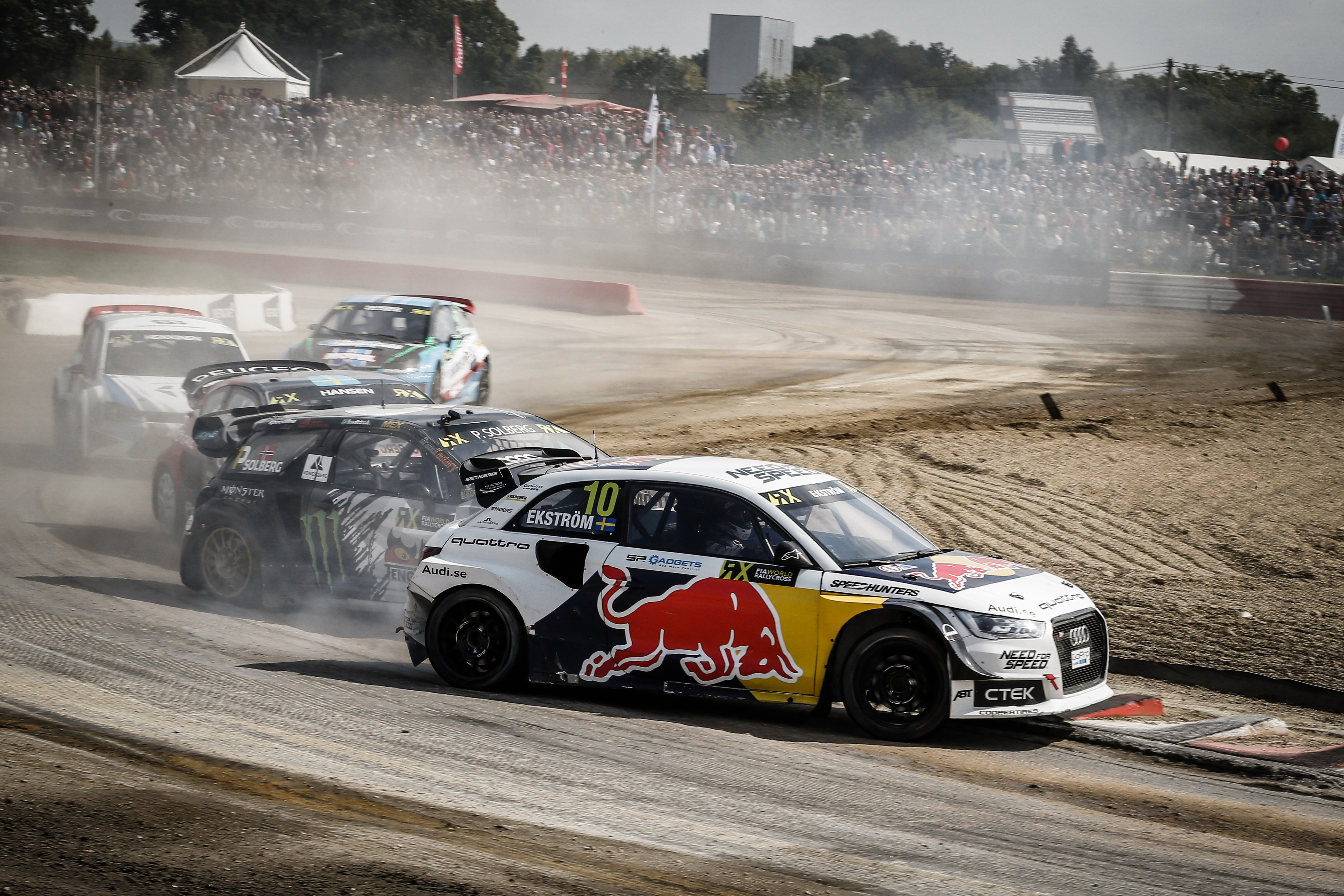 2015 FIA World Rallycross Championship // Round 09 // Loheac, France // 04 - 06, September 2015 // Worldwide Copyright: EKS/McKlein